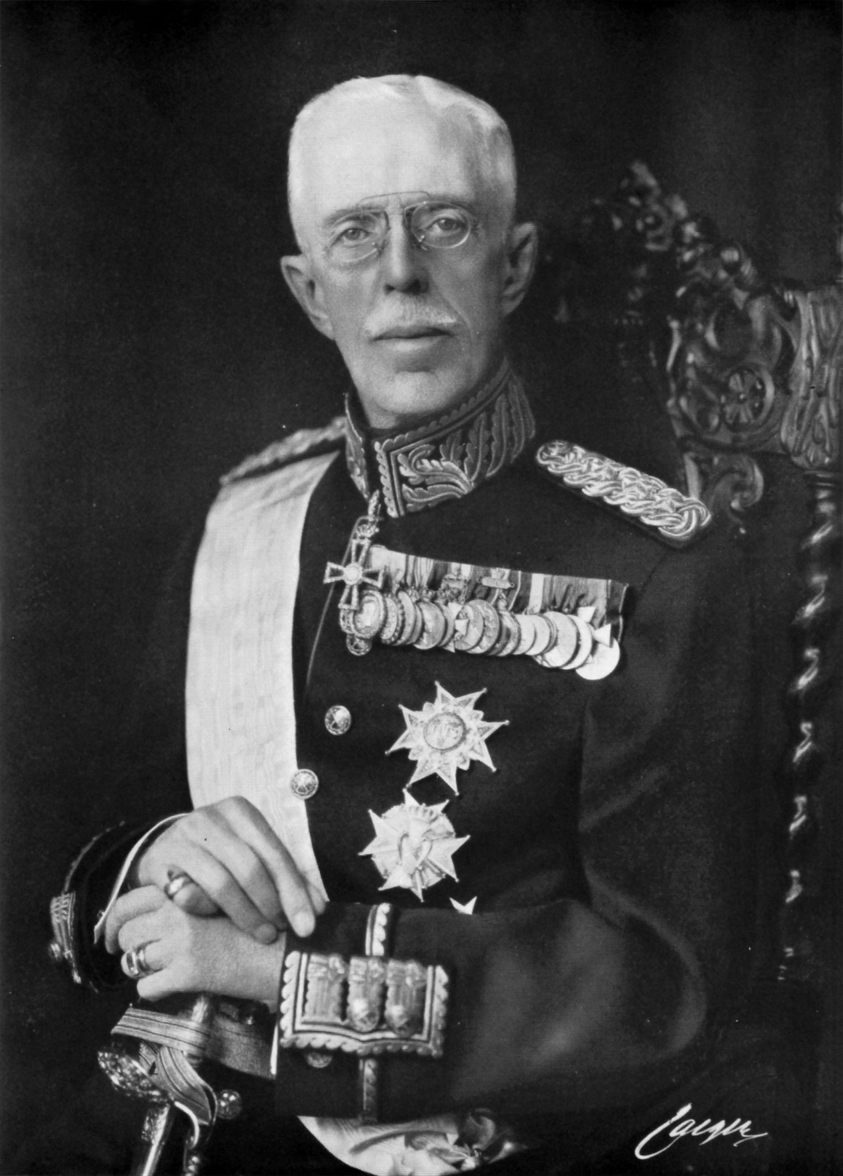 King Gustav V of Sweden